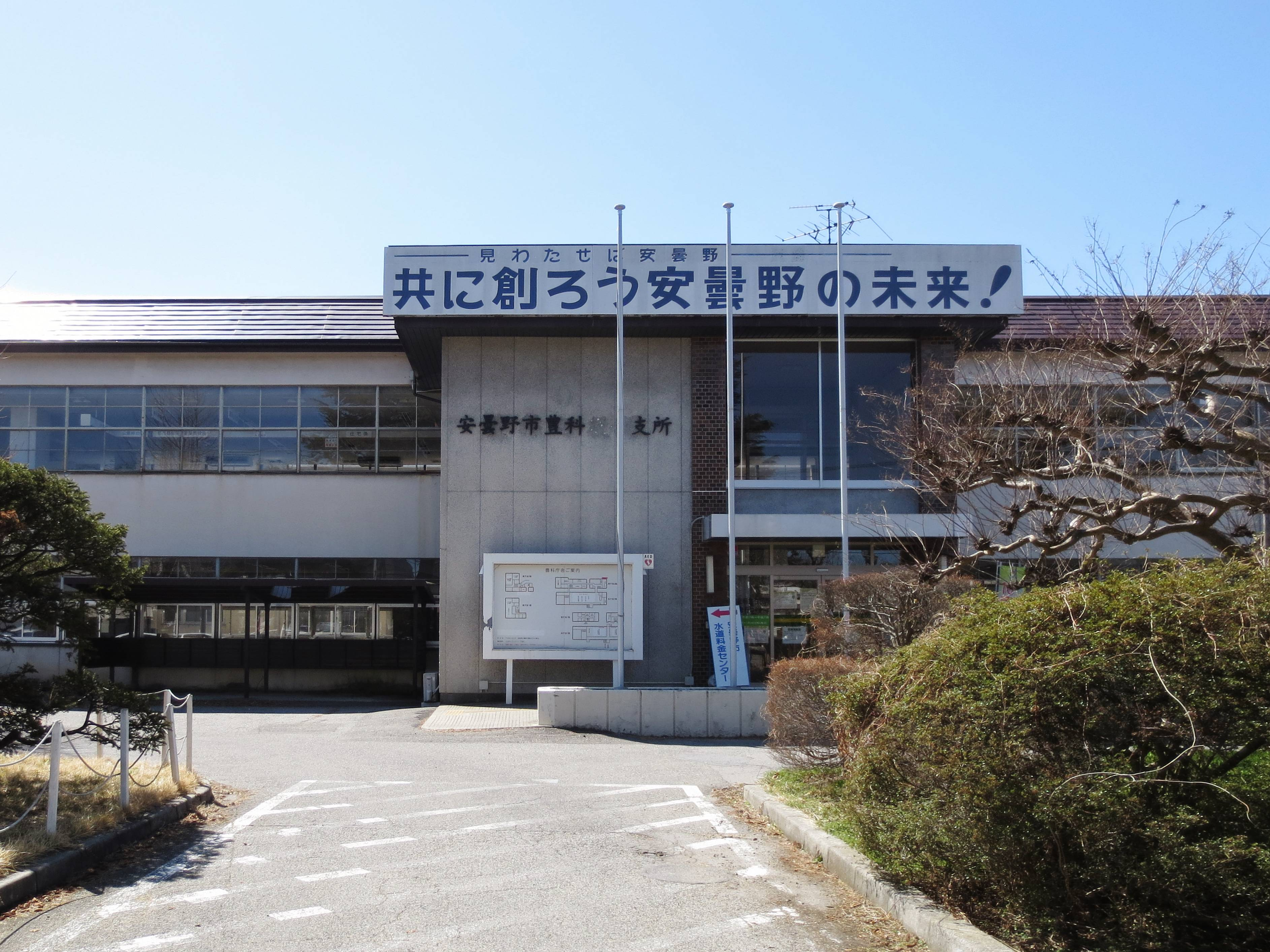 Azumino city Toyoshina branch office.